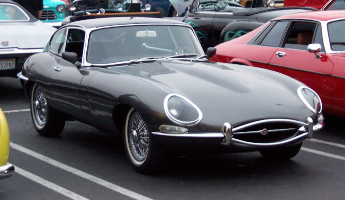 Jaguar E-type (closed body) at the weekly Donut Derelicts car show in Huntington Beach, California